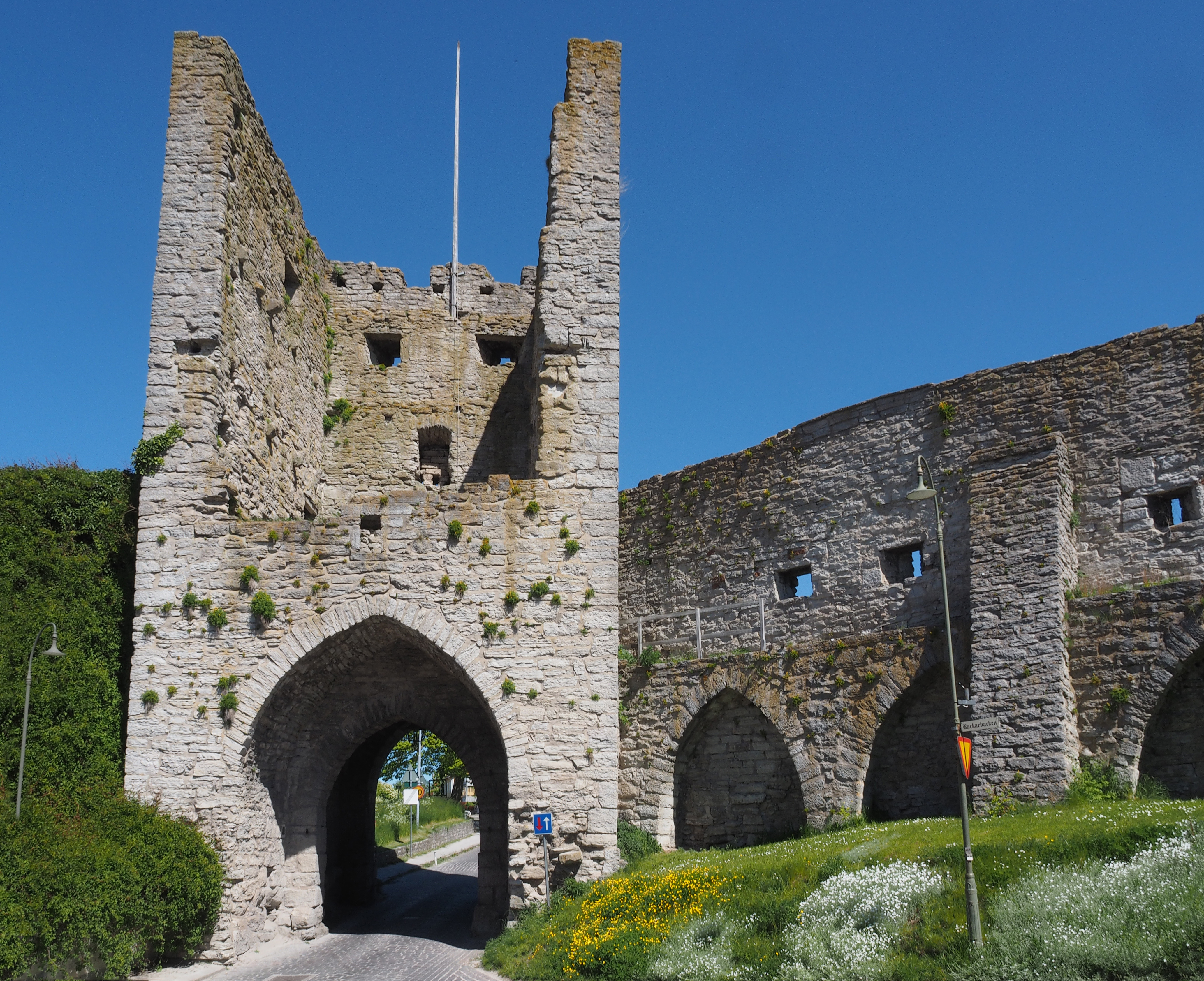 Norderport in the Town Wall Visby